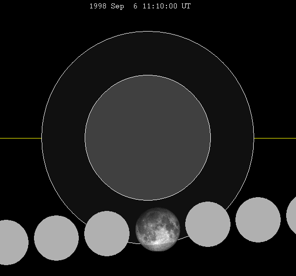 September 1998 lunar eclipse chart of moon's penumbral lunar eclipse path through the earth's shadow. thumb